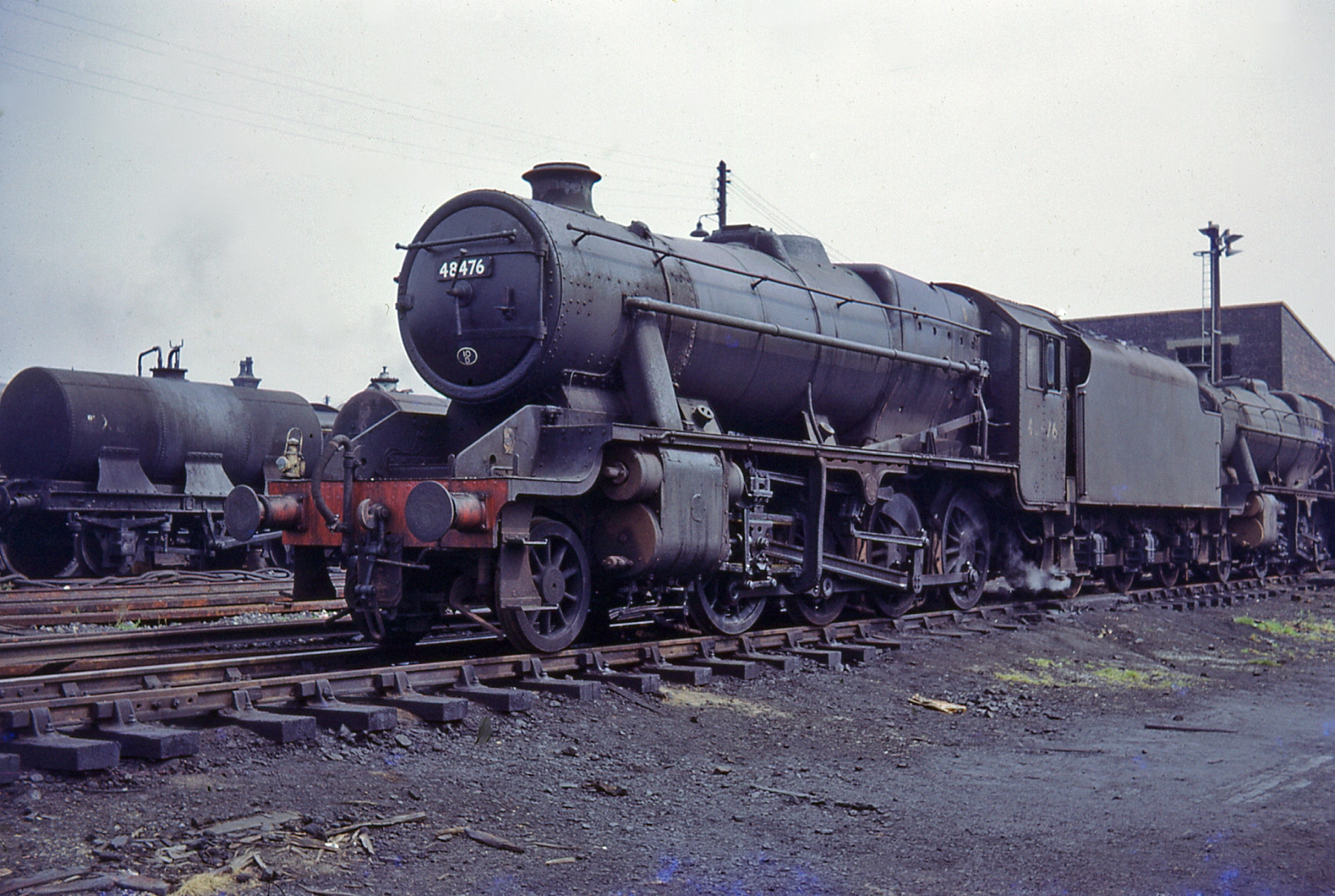 Stanier 8F 2-8-0 No. 48476 at Lostock Hall shed a few days before the End of Steam in Britain, late July 1968.